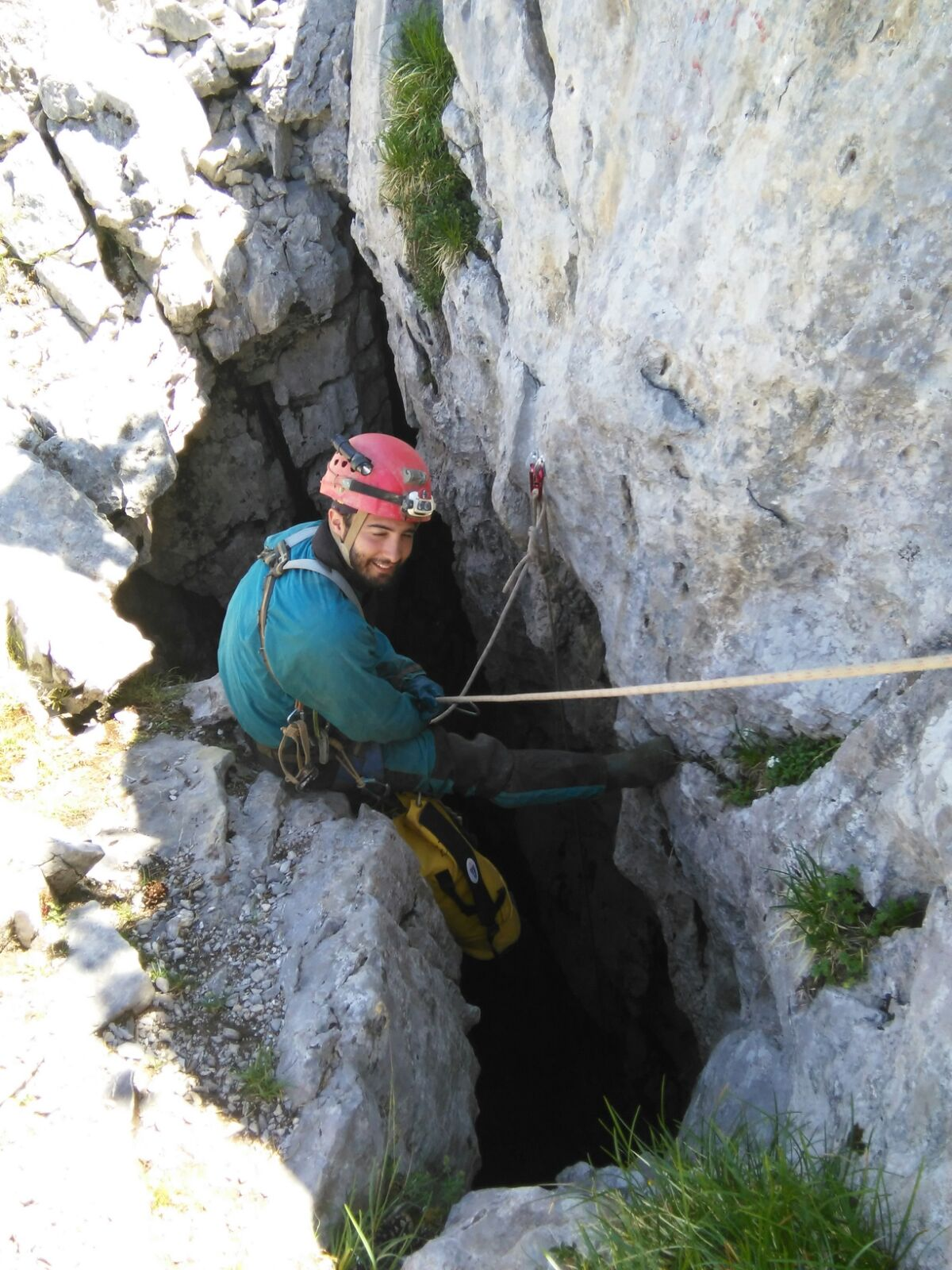 Speleologist entering BU-56 Illaminako Ateak cave. Campaign of 2018.